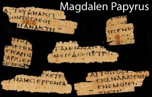 Image of the recto and verso of Papyrus 64.